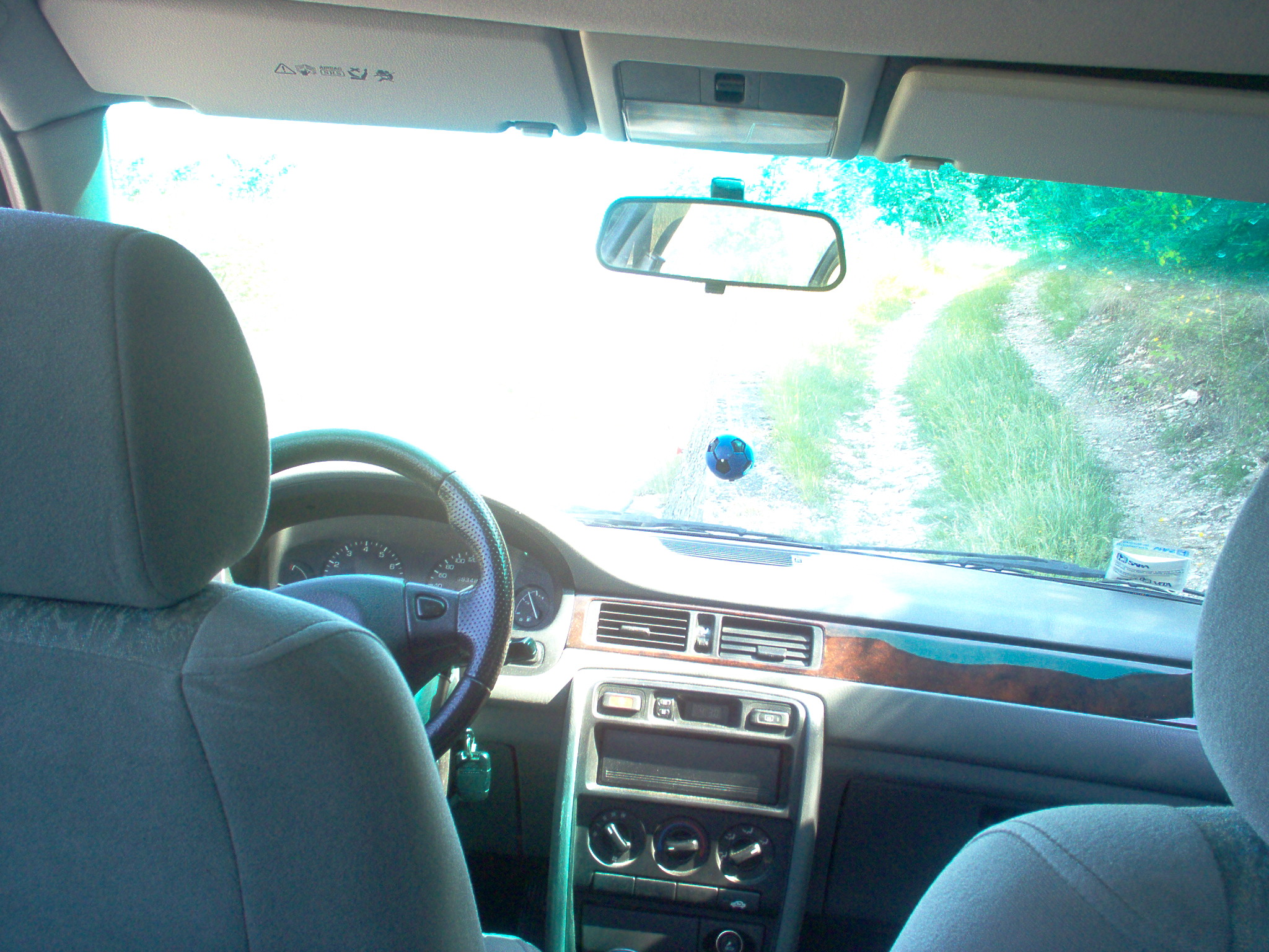 The inside of a 1997 Rover 414i.